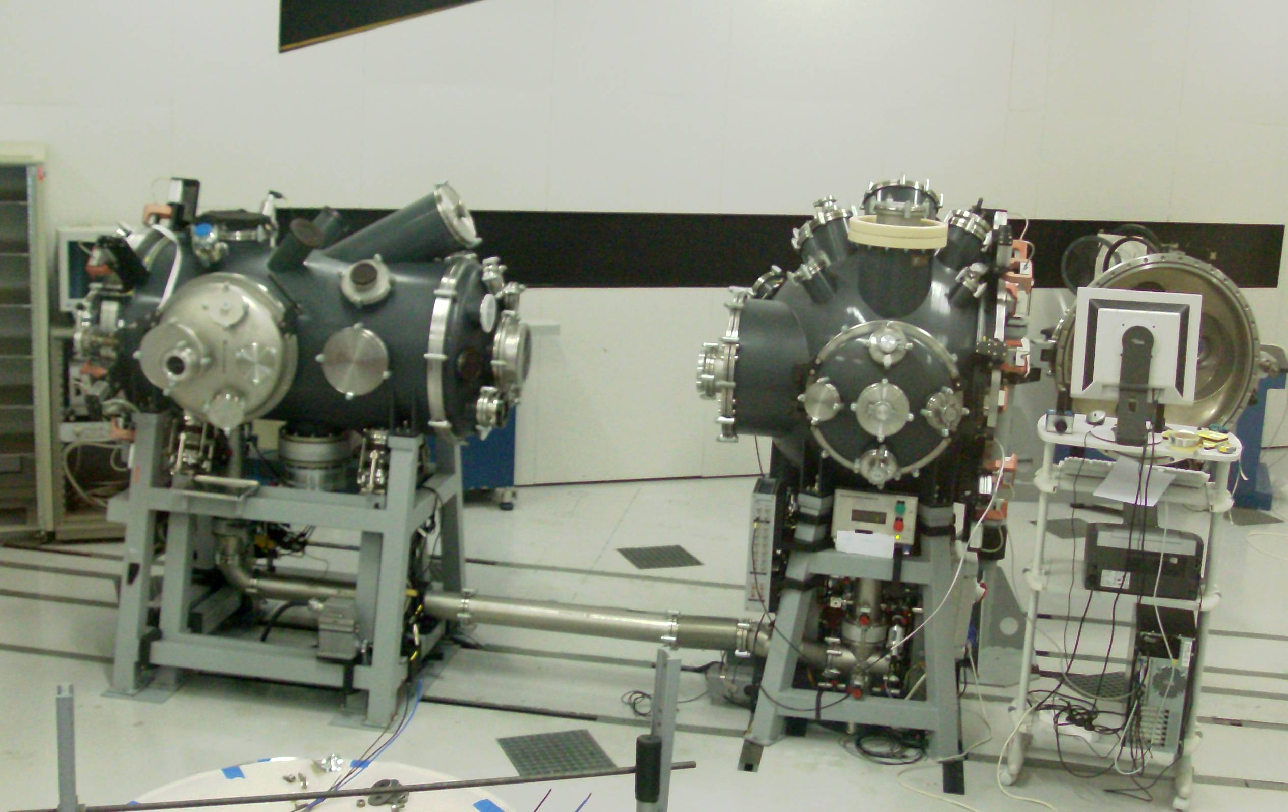 Photograph of two interaction chambers of the Prague Asterix IV Laser System. The 1 kJ optical pulse is focused onto an area of less than 0,1 mm in diameter, creating hot dense plasma. High optical intensities need vacuum to prevent dielectric breakdown of air.